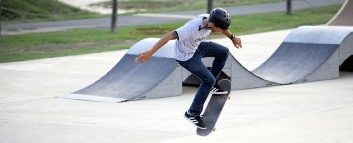 GETTING SOME AIR Hospital Corpsman 3rd Class Dan Collumb, a medic attached to the Naval Hospital at Naval Station Guantanamo Bay, catches some air while performing a trick at the Liberty Morale, Welfare and Recreation skate park skills competition, October 14. - photo by Army Sgt. Mathieu Perry